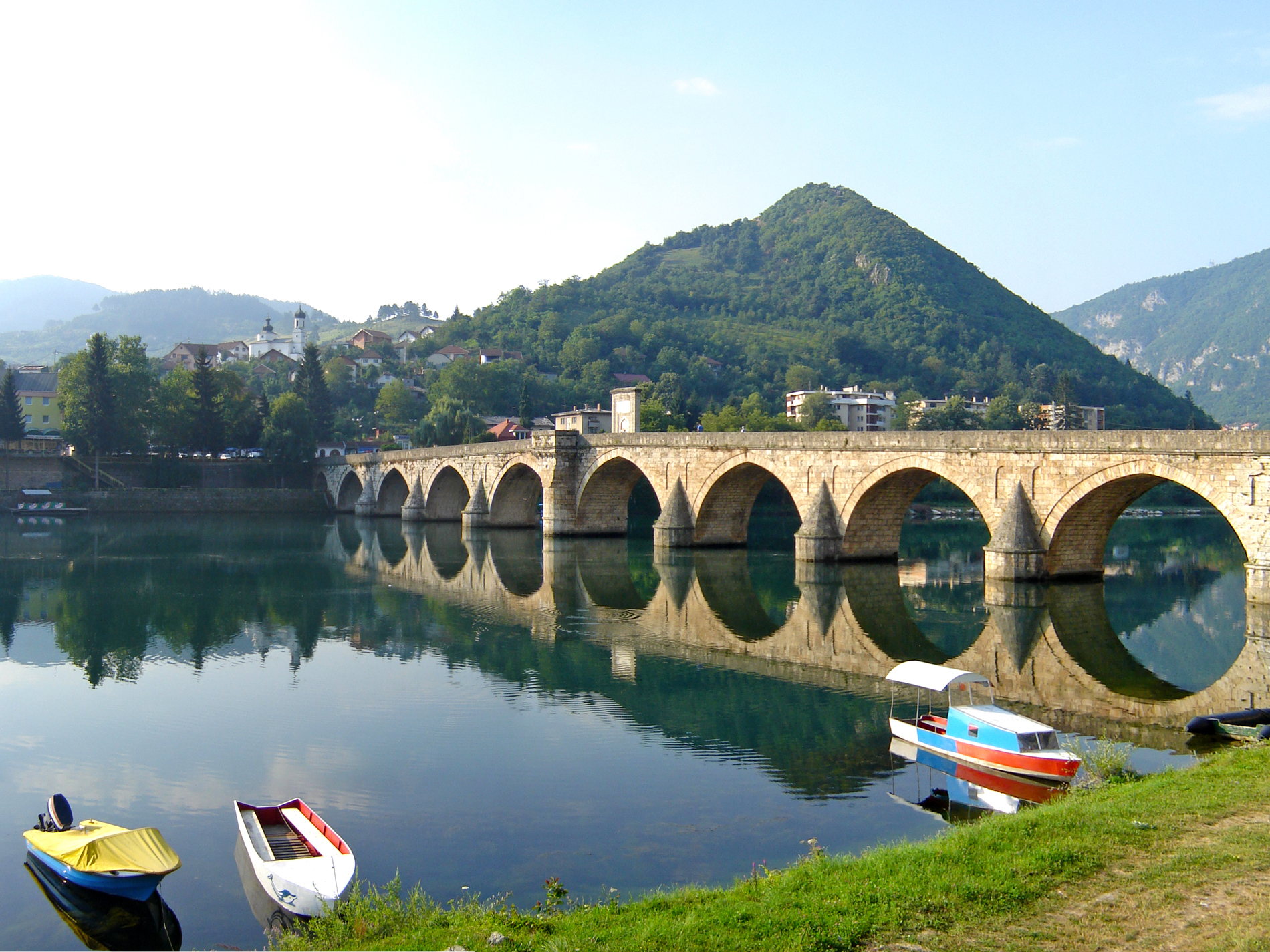 Bridge on the Drina, Visegrad, Bosnia and Herzegovina, UNESCO world heritage site since 2007.